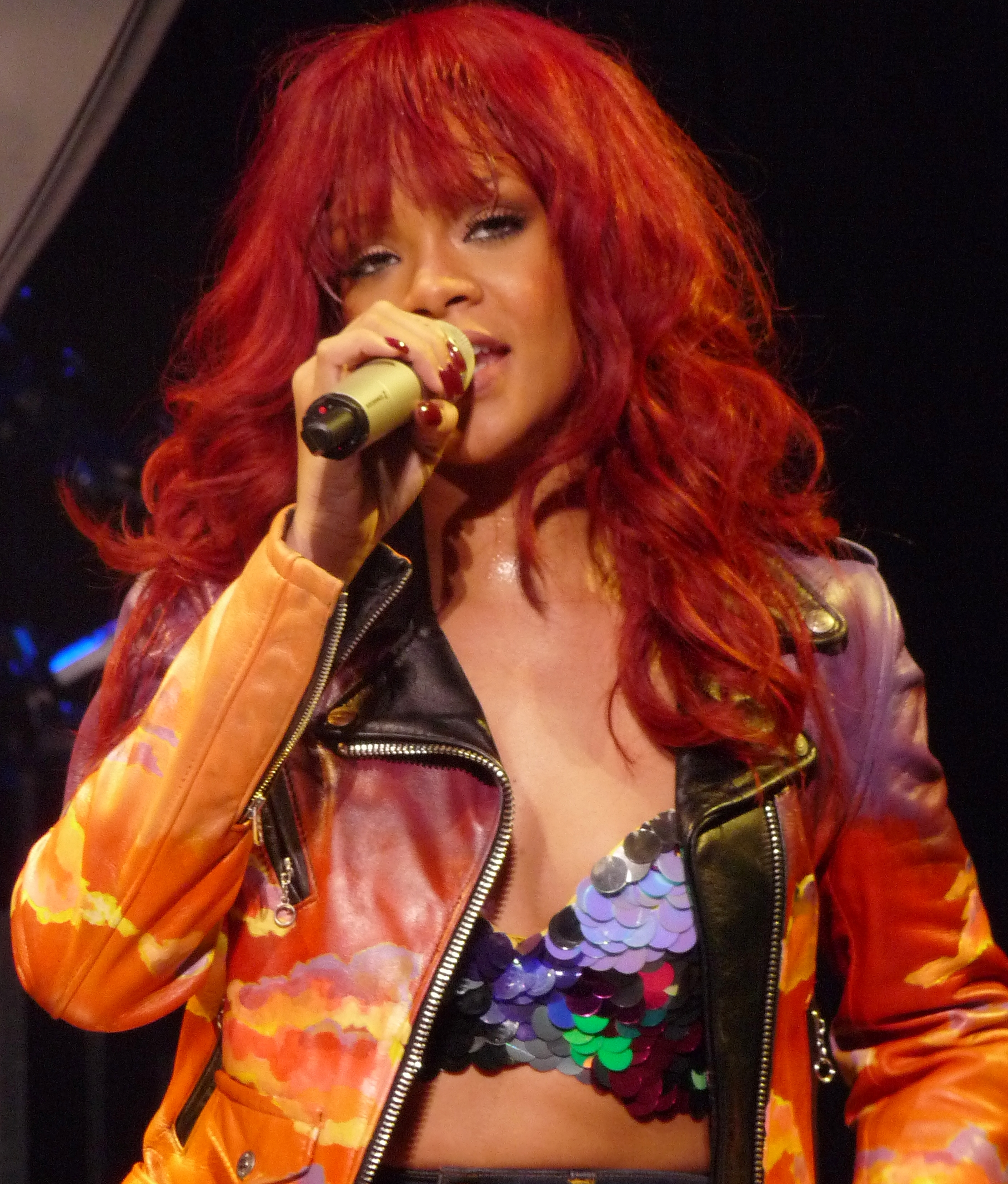 Rihanna live at Bankatlantic Center, Sunrise, Florida, on her tour The LOUD Tour. 14th July 2011